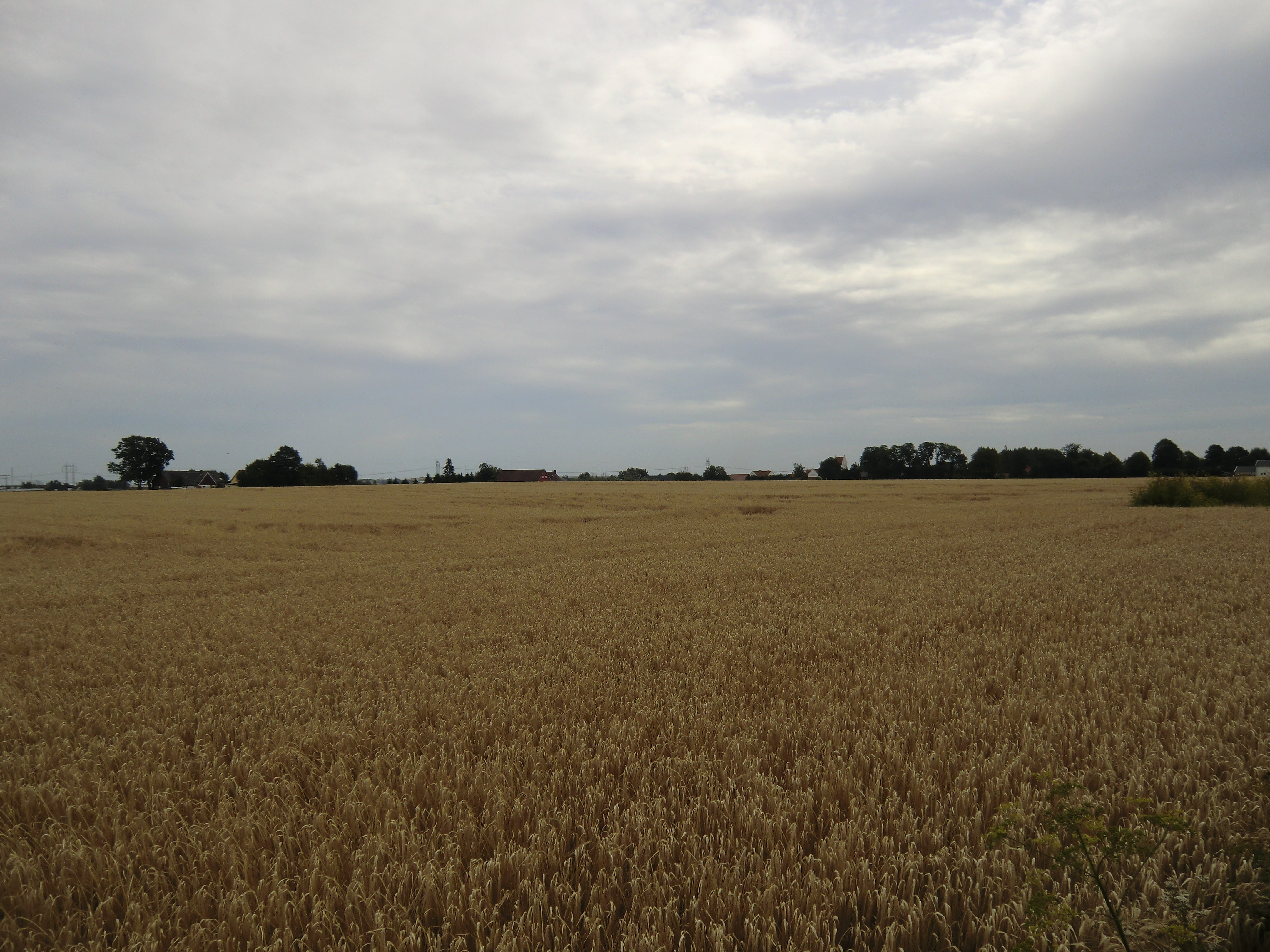 Tottarp, Staffanstorp Municipality, Scania, Sweden